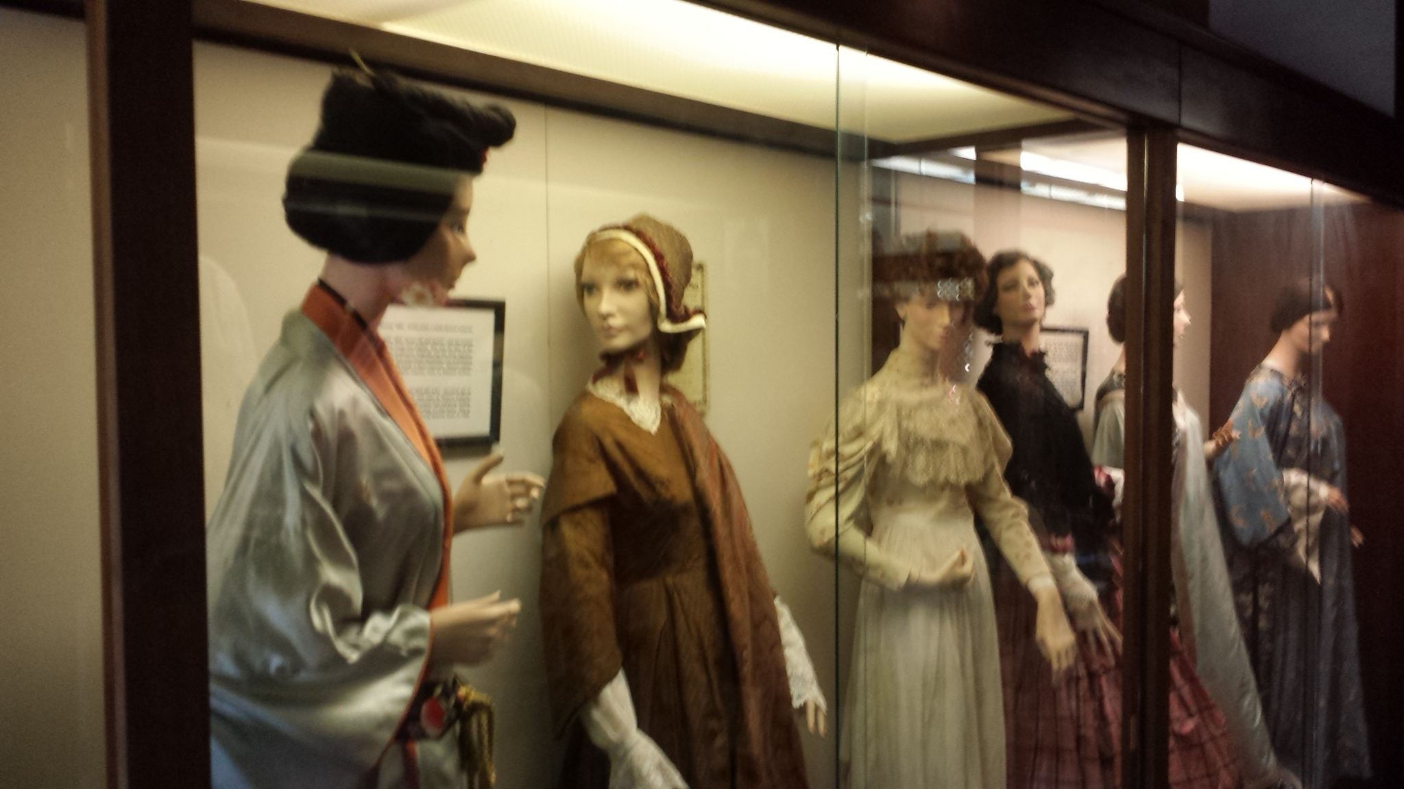 William Collins, photo